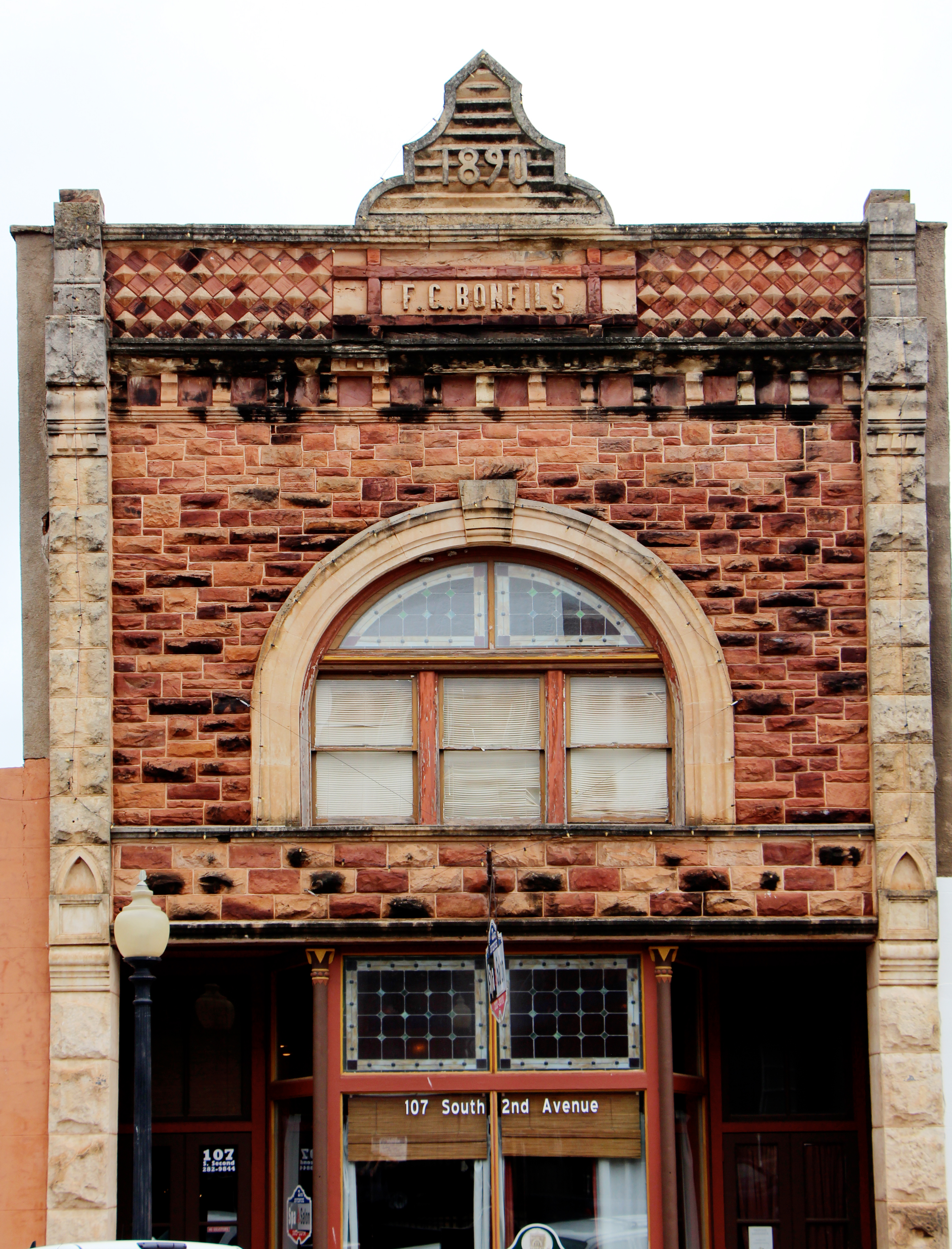 Bonfils Building, Guthrie, Oklahoma